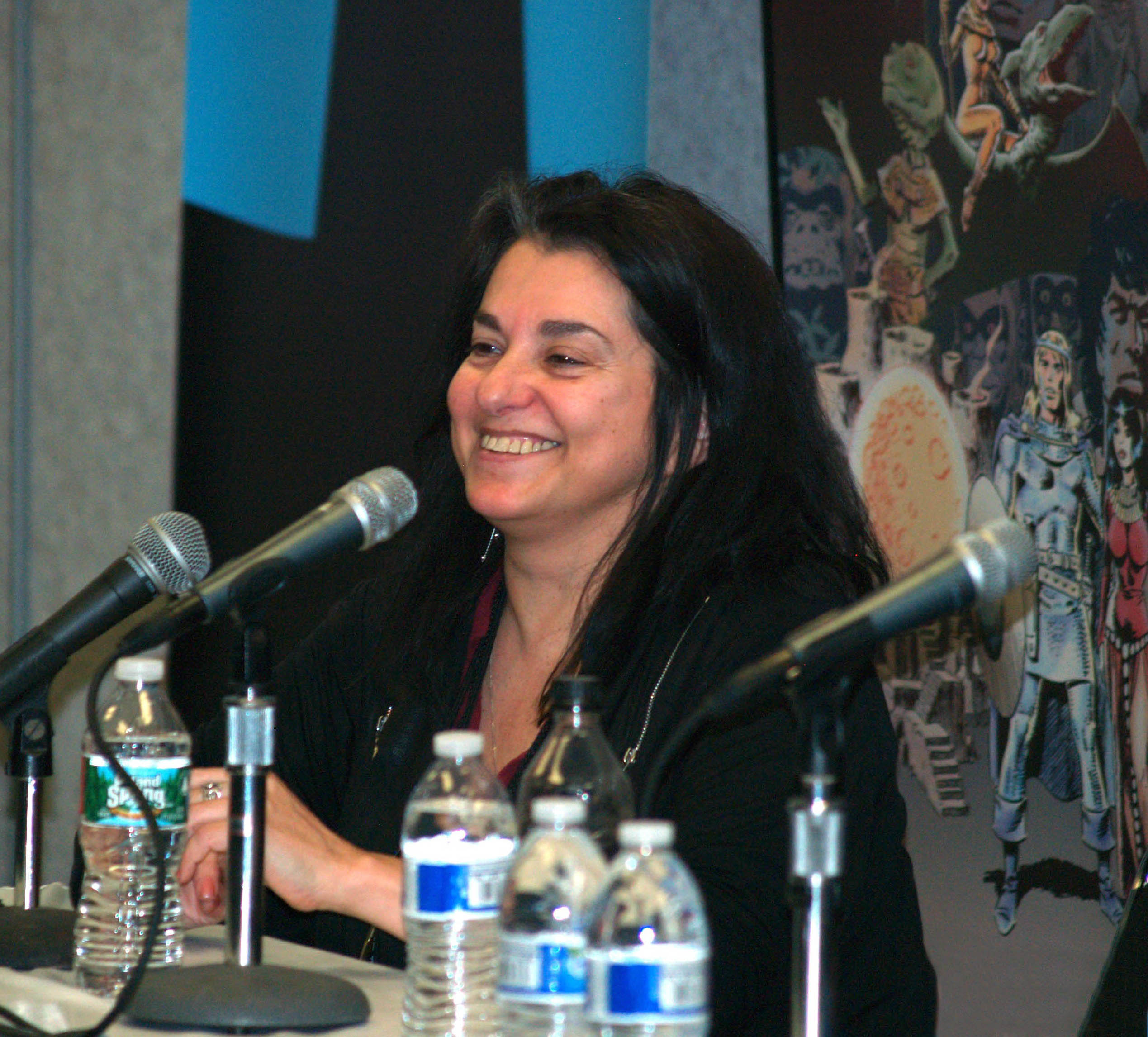 Journalist/comics writer Ann Nocenti speaking on a "Marvel in the 80s" panel at the Meadowlands Exposition Center in Secaucus, New Jersey on April 11, 2015, Day 1 of the 2015 East Coast Comicon. This photo was created by Luigi Novi. It is not in the public domain, and use of this file outside of the licensing terms is a copyright violation.